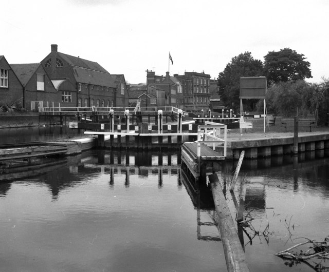 County Lock, River Kennet, Reading County Lock is the lowest of the BWB locks on the Kennet Navigation. It is situated in an urban area with only one more lock (Blake's Lock, administered by the Thames authority) just a few hundred yards below it and the same distance above the point (Kennet Mouth) where the Kennet disgorges into the River Thames.